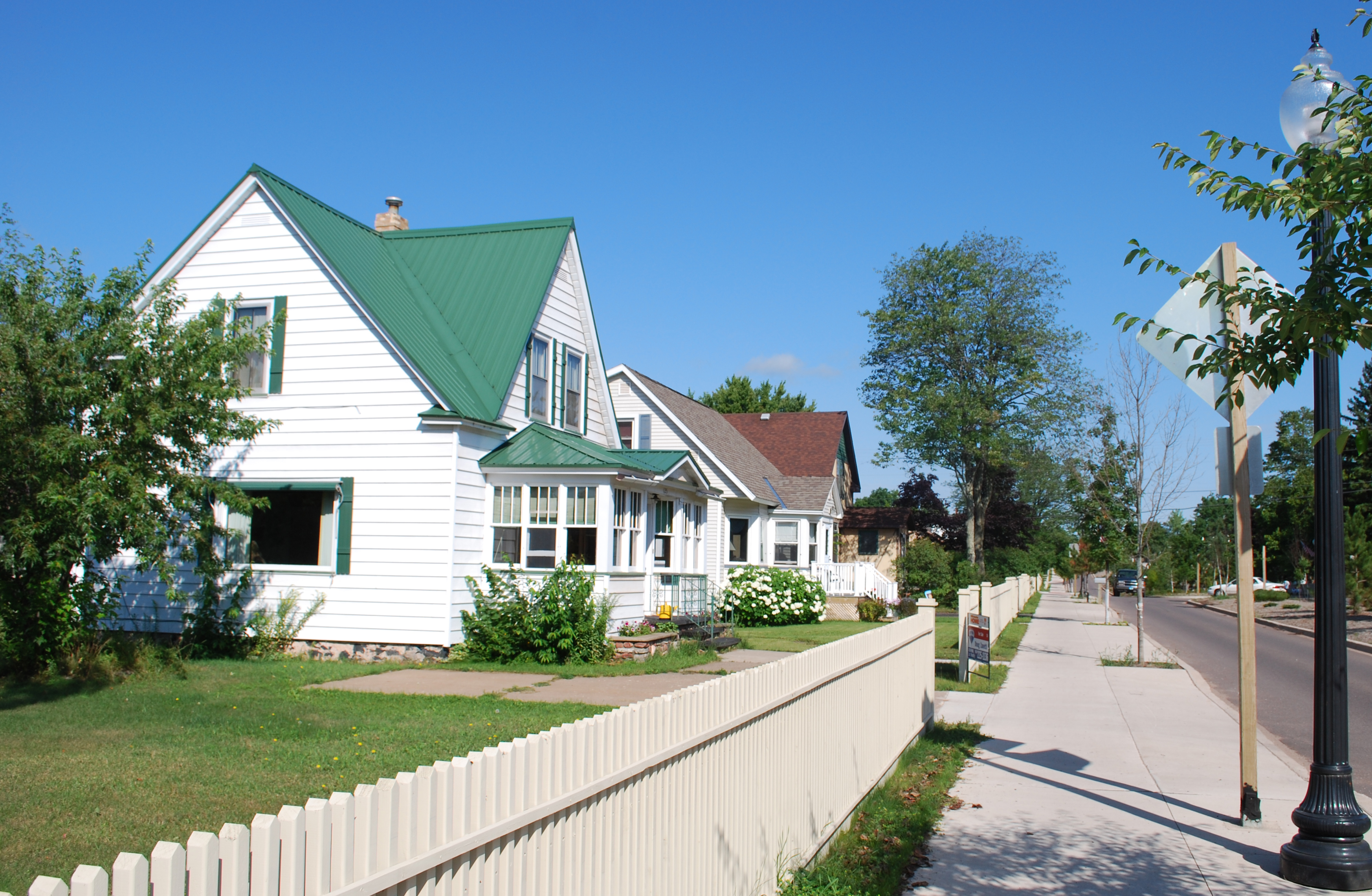 Gwinn Model Town Historic District houses